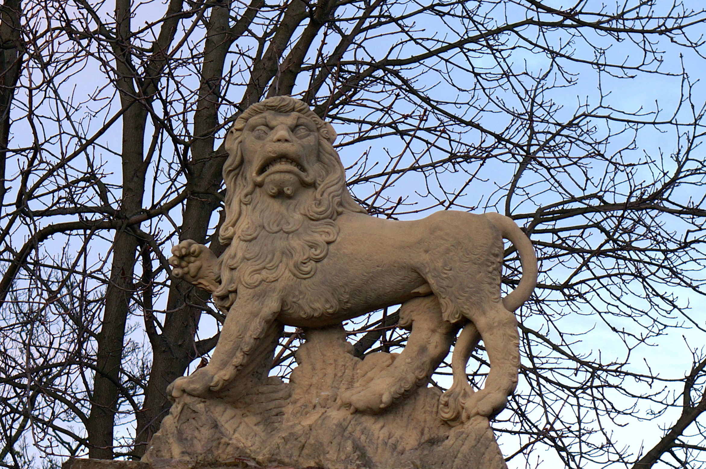 Satue at Kauzenburg, Bad Kreuznach, Germany